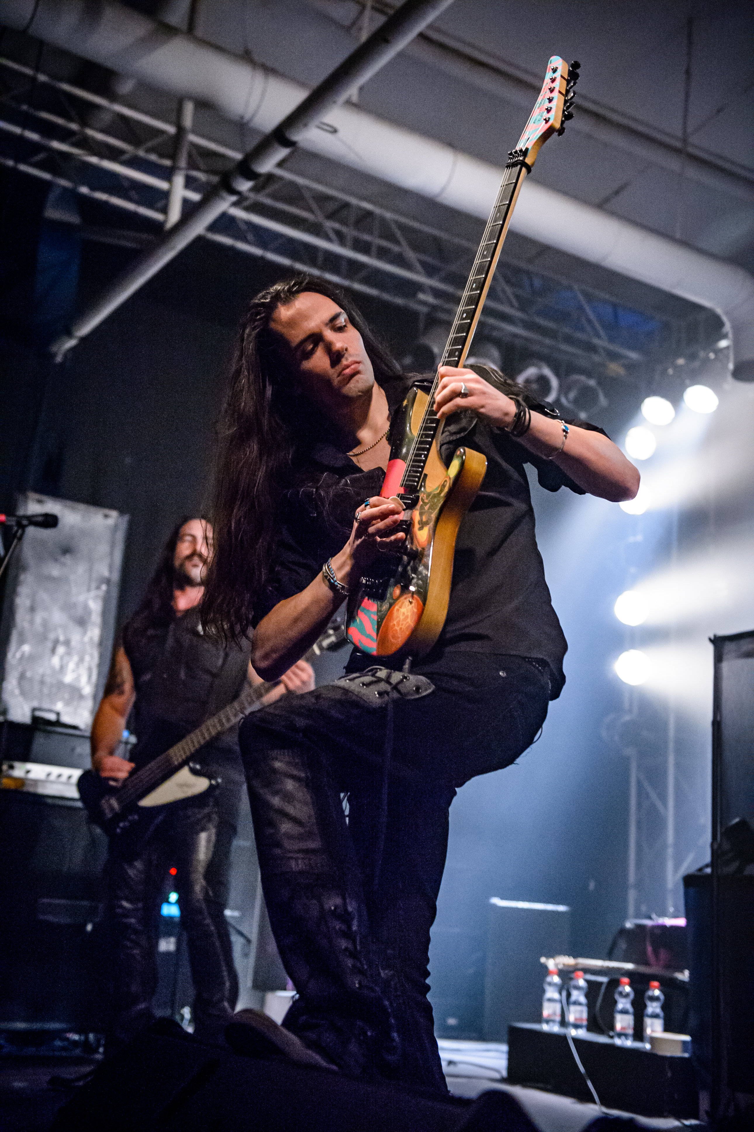 Kobra and the Lotus support for Delain - Moonbathers Tour; Essigfabrik Köln 2016